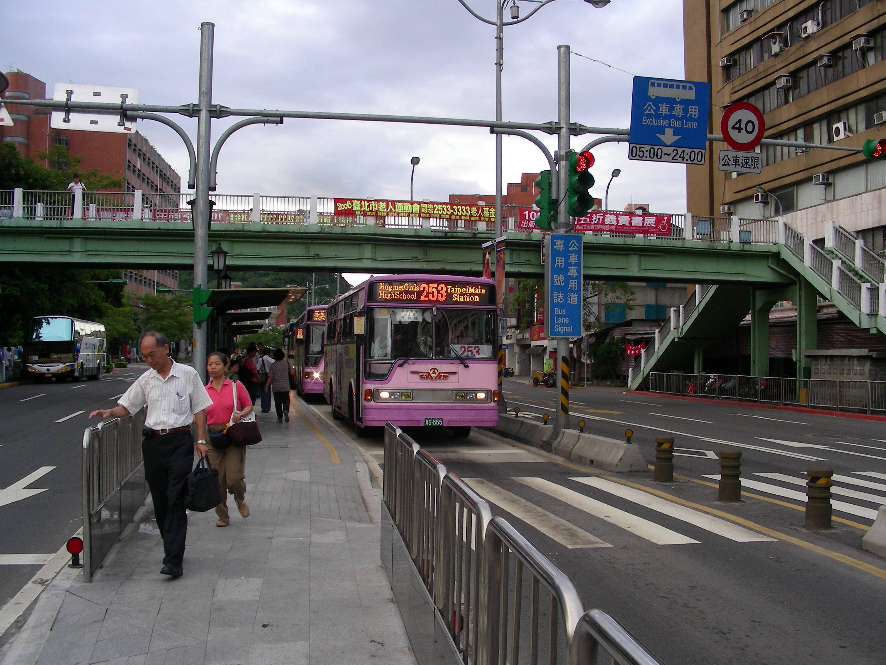 Shin-Shin Bus AG-555 at bus stop on Roosevelt Road exclusive bus lane, Taipei City.